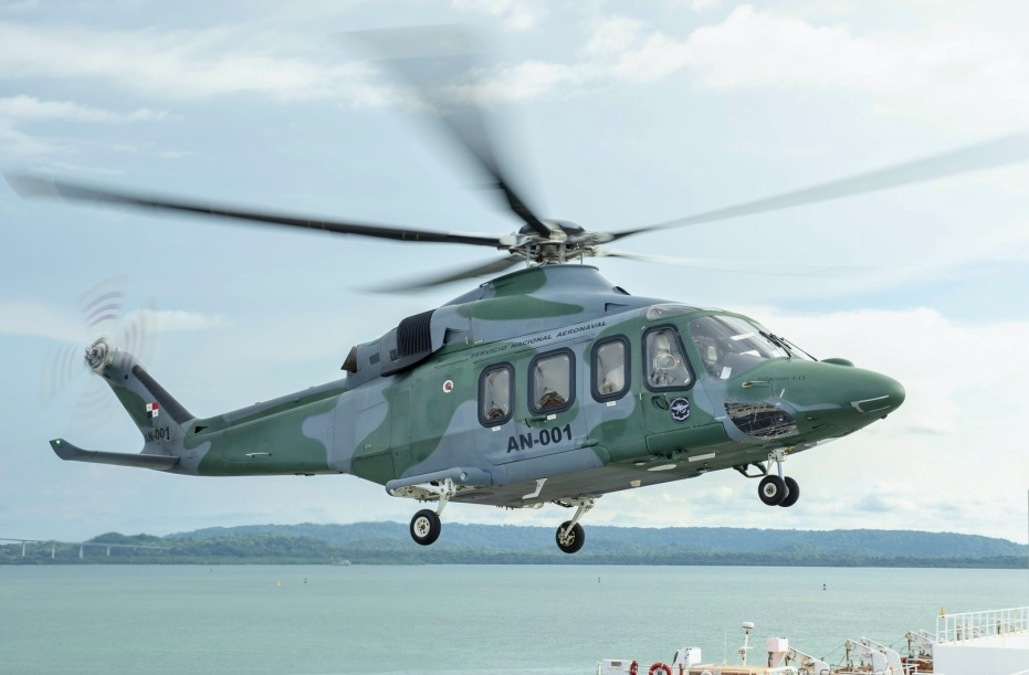 190808-N-DZ642-1094 COLON, Panama (Aug. 8, 2019) An AW-139 helicopter, assigned to Panama's Servicio Nacional Aeronaval, carrying Panamanian President Laurentino Cortizo, lands on the flight deck of the hospital ship USNS Comfort (T-AH 20). Comfort is working with health and government partners in Central America, South America, and the Caribbean to provide care on the ship and at land-based medical sites, helping to relieve pressure on national medical systems strained by an increase in Venezuelan migrants. (U.S. Navy photo by Mass Communication Specialist 2nd Class Bobby J Siens)